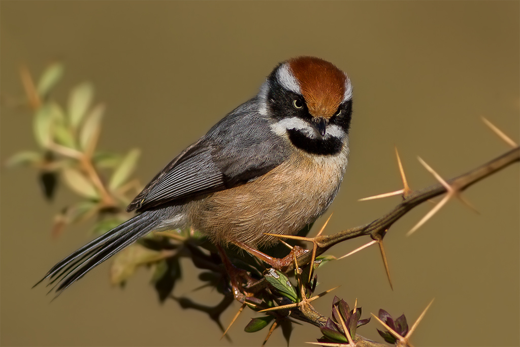 Black-throated Tit | Makku, Uttarakhand, India